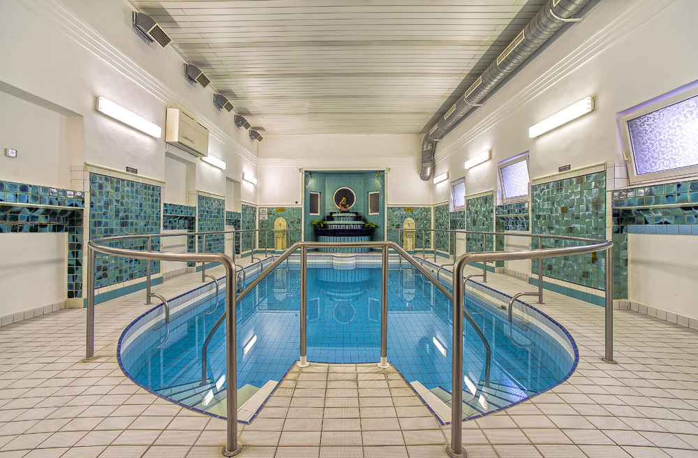 Bazén Zimní lázně (Poděbrady)